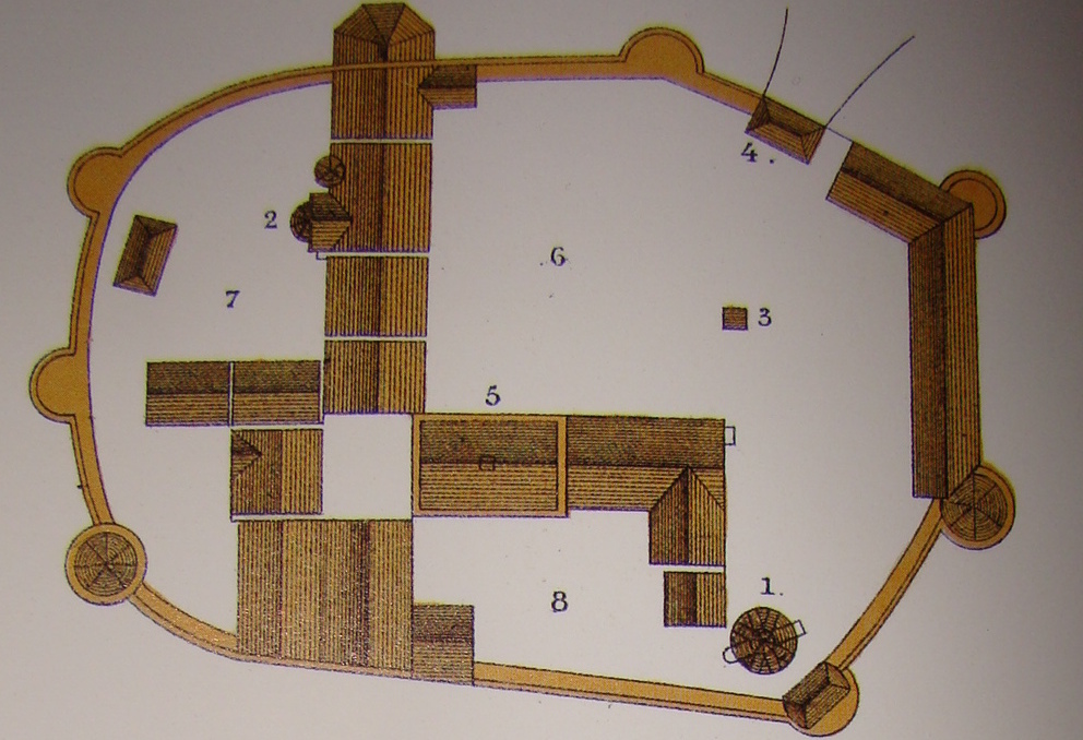 Castle Valkhof at Nijmegen (Netherlands)